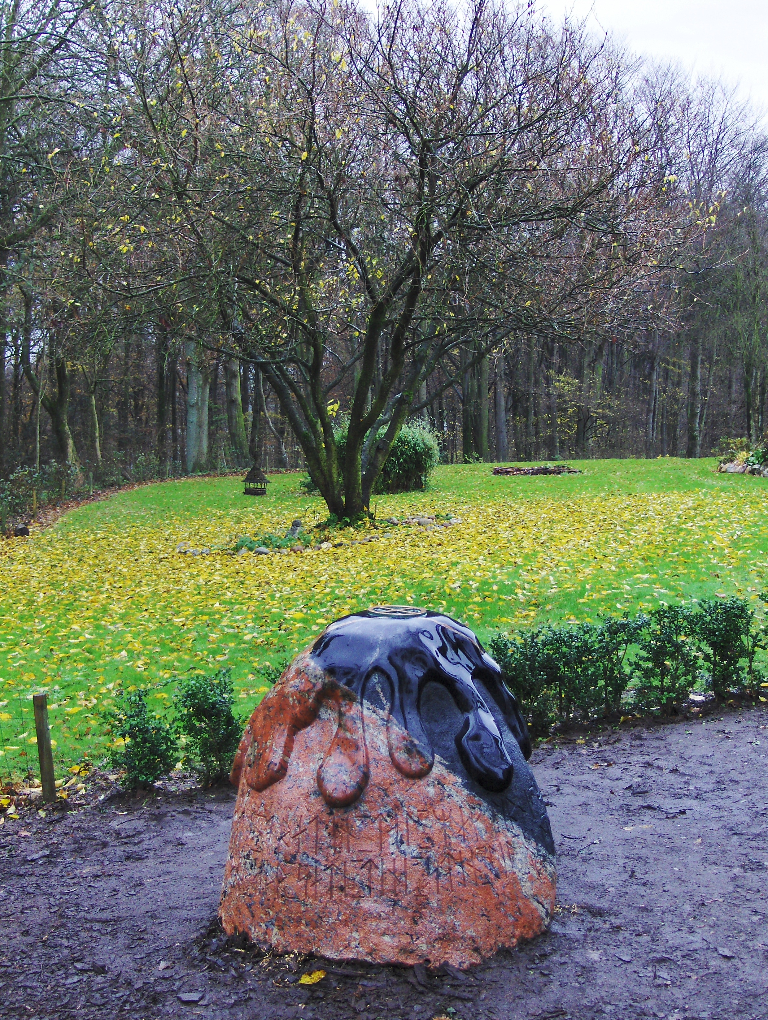 Runestone from the danish pagan society Forn Siðr, the official stone setting was in november 2006 near Jelling.